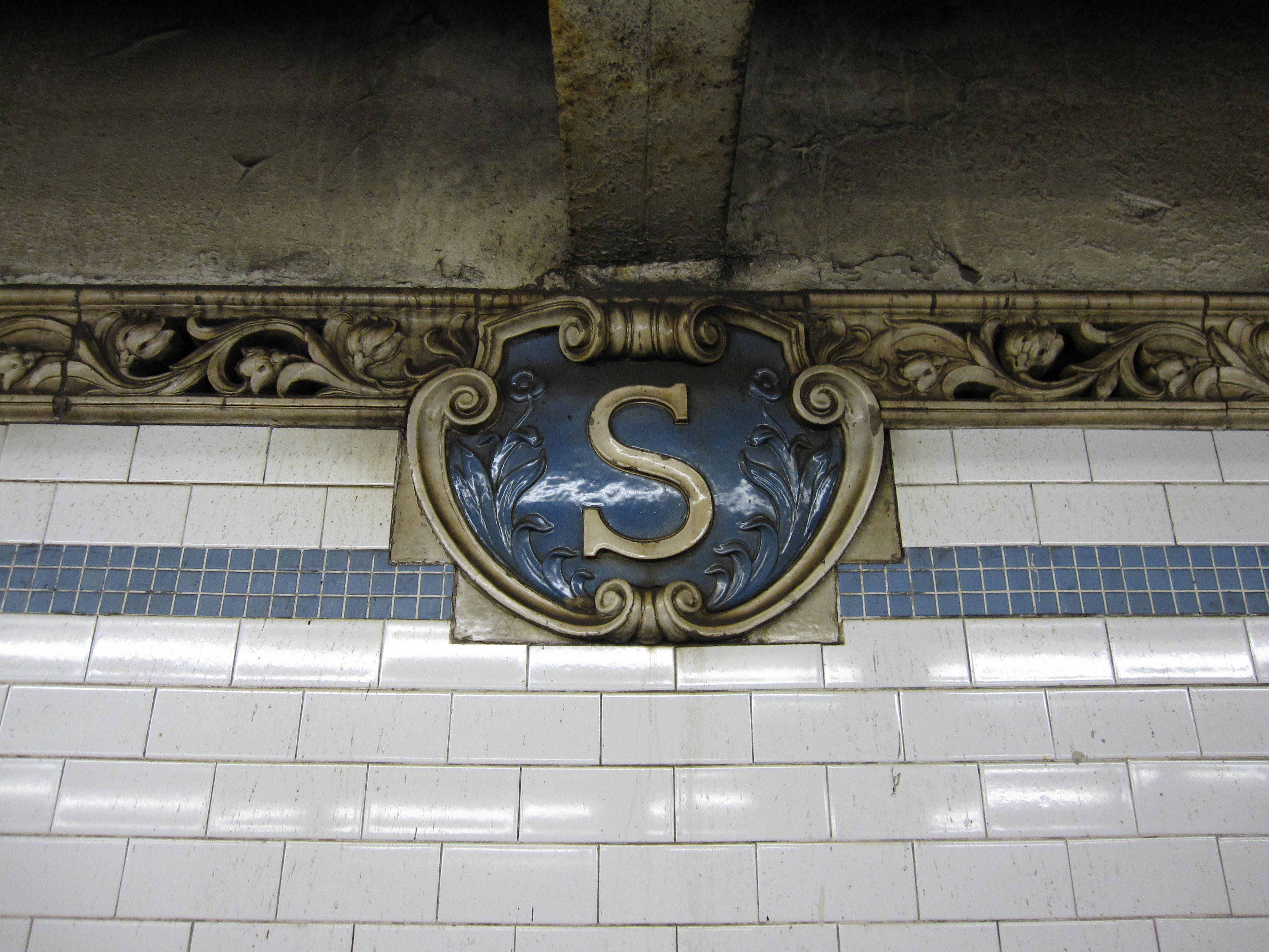 Spring Street (IRT Lexington Avenue Line)